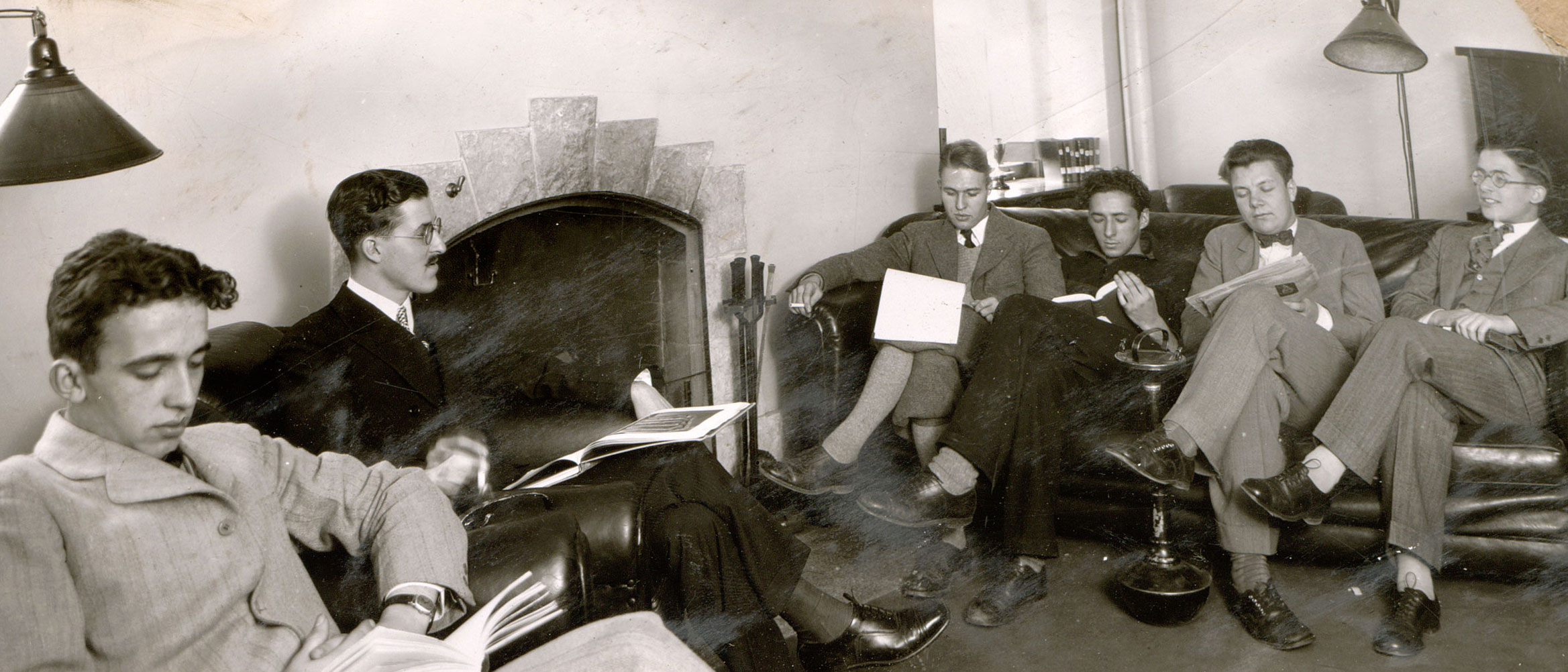 University of Wisconsin Experimental College: "men in den" of Adams Hall, December 15, 1927 (edited for contrast)